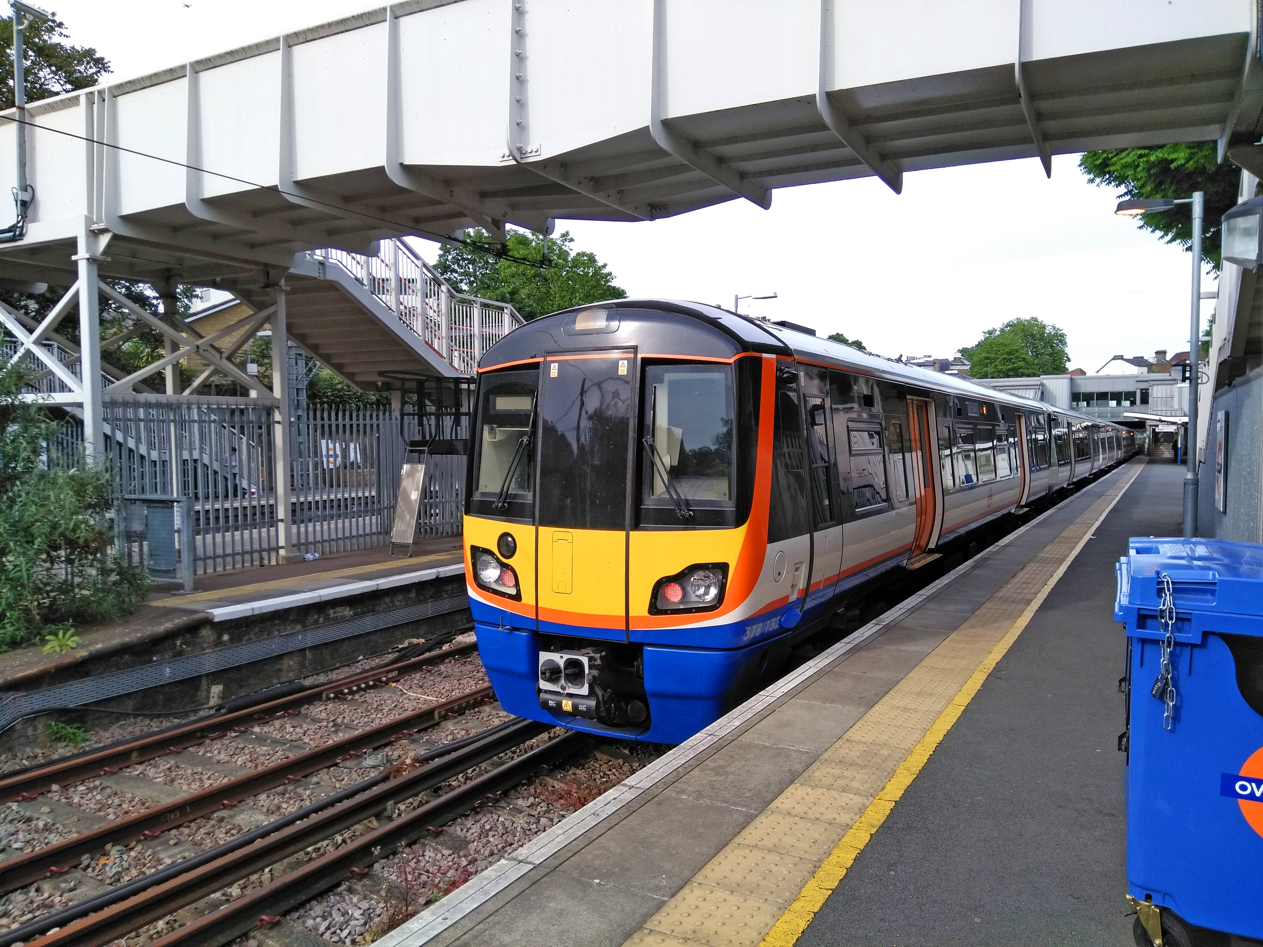 London Overground Class 378 unit 378135 stands at Gospel Oak station